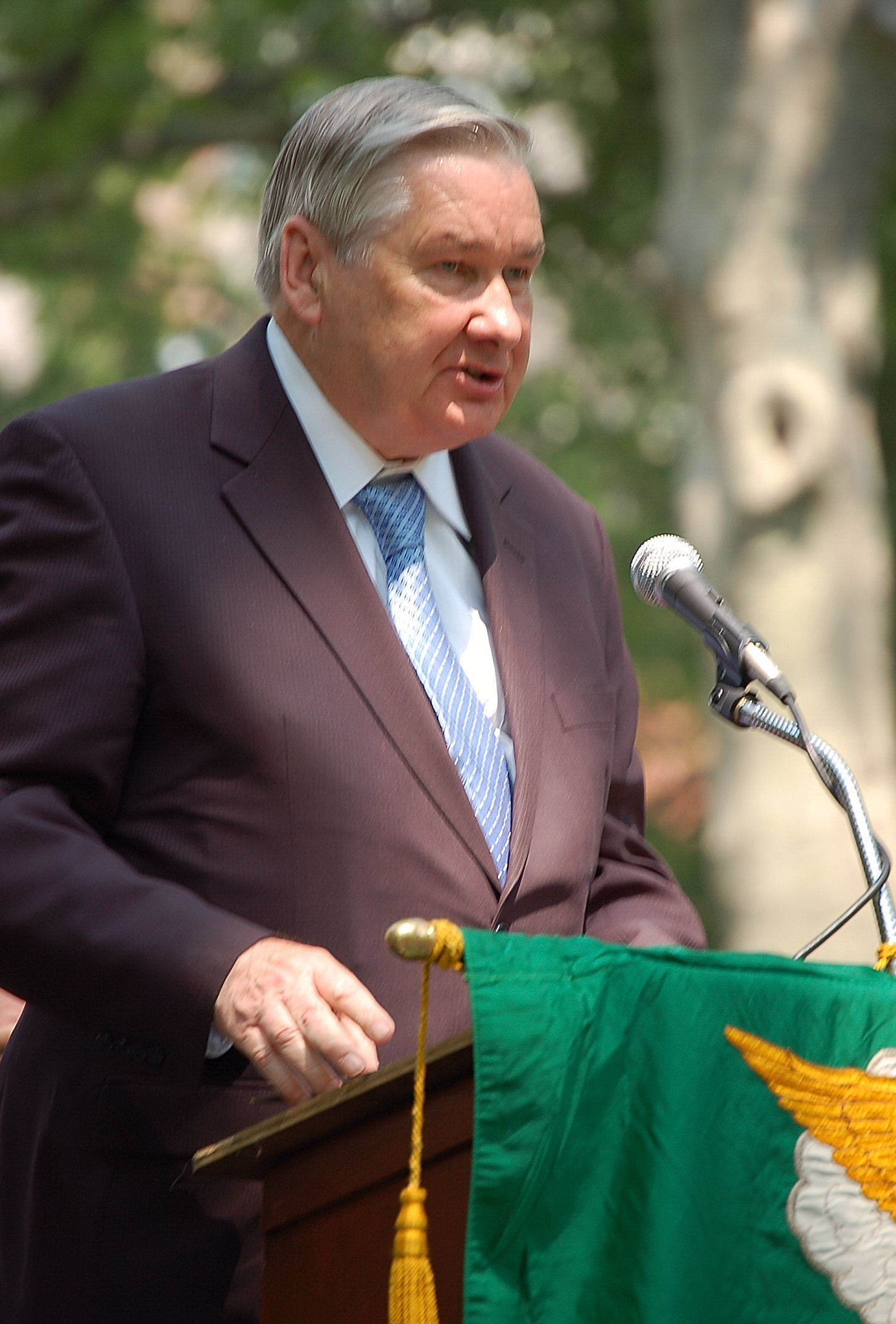 Councilman-at-large Jack Kelly, whose parents were born in Ireland, read a proclamation from the city council honoring Barry.